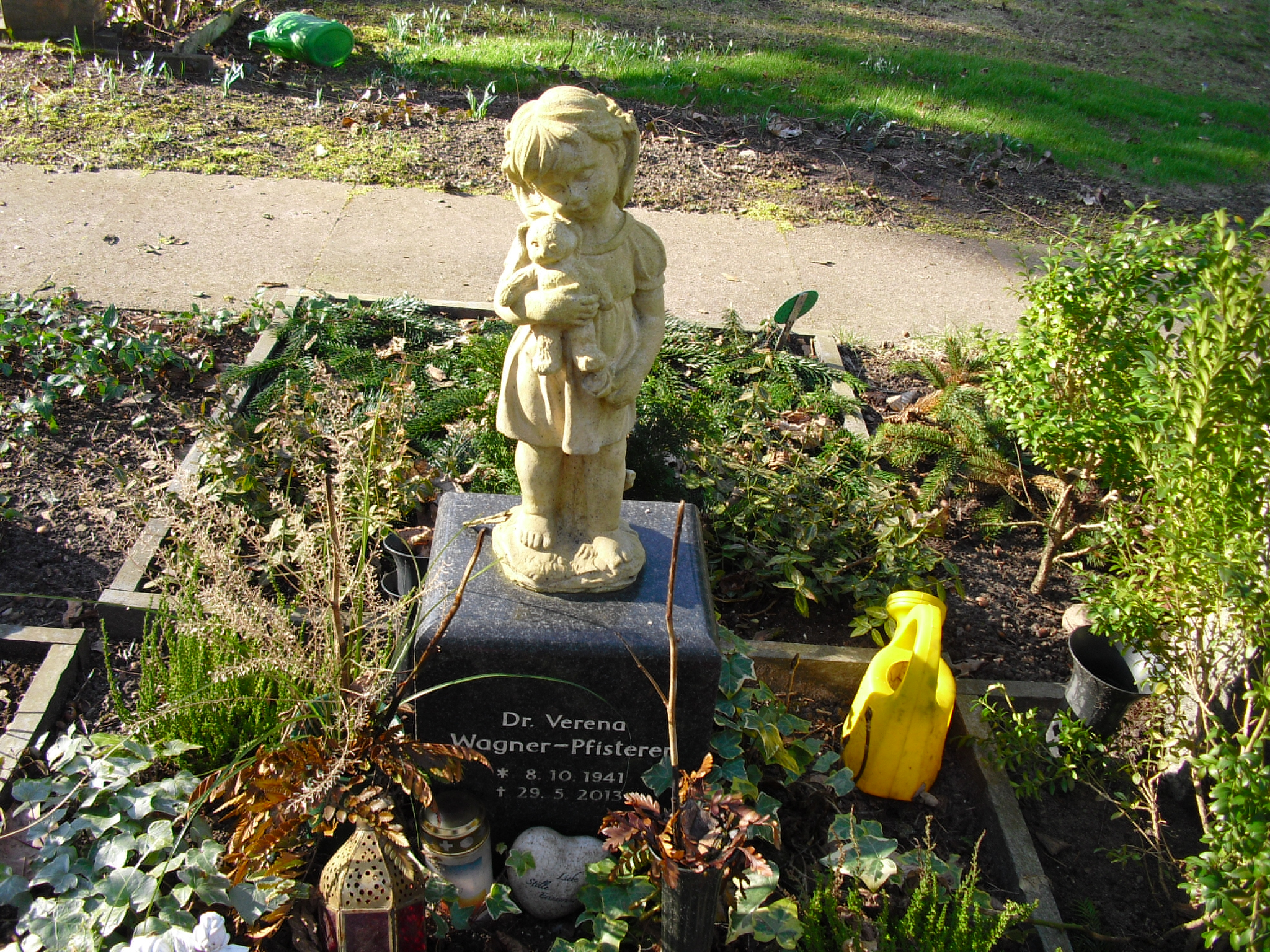 Grave of German painter Verena Pfisterer in Friedhof Steglitz, Berlin-Steglitz.